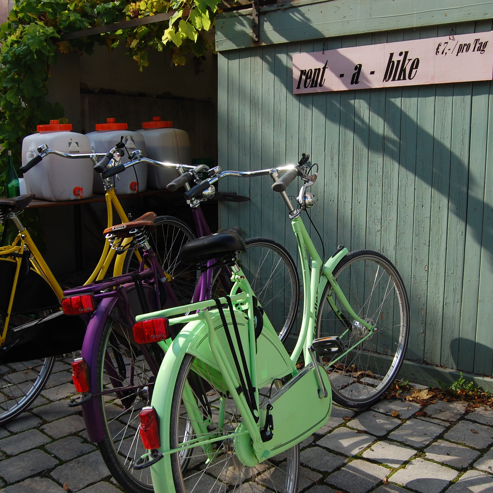 Rent a Bike in Germany